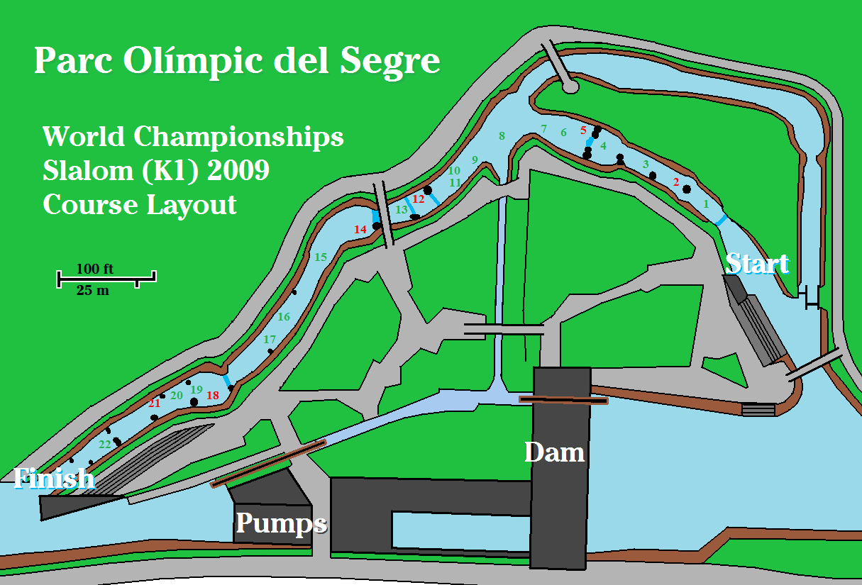 Artificial whitewater course rigged with slalom gates for the World Championship competition, K-1 final race, September 13, 2009.